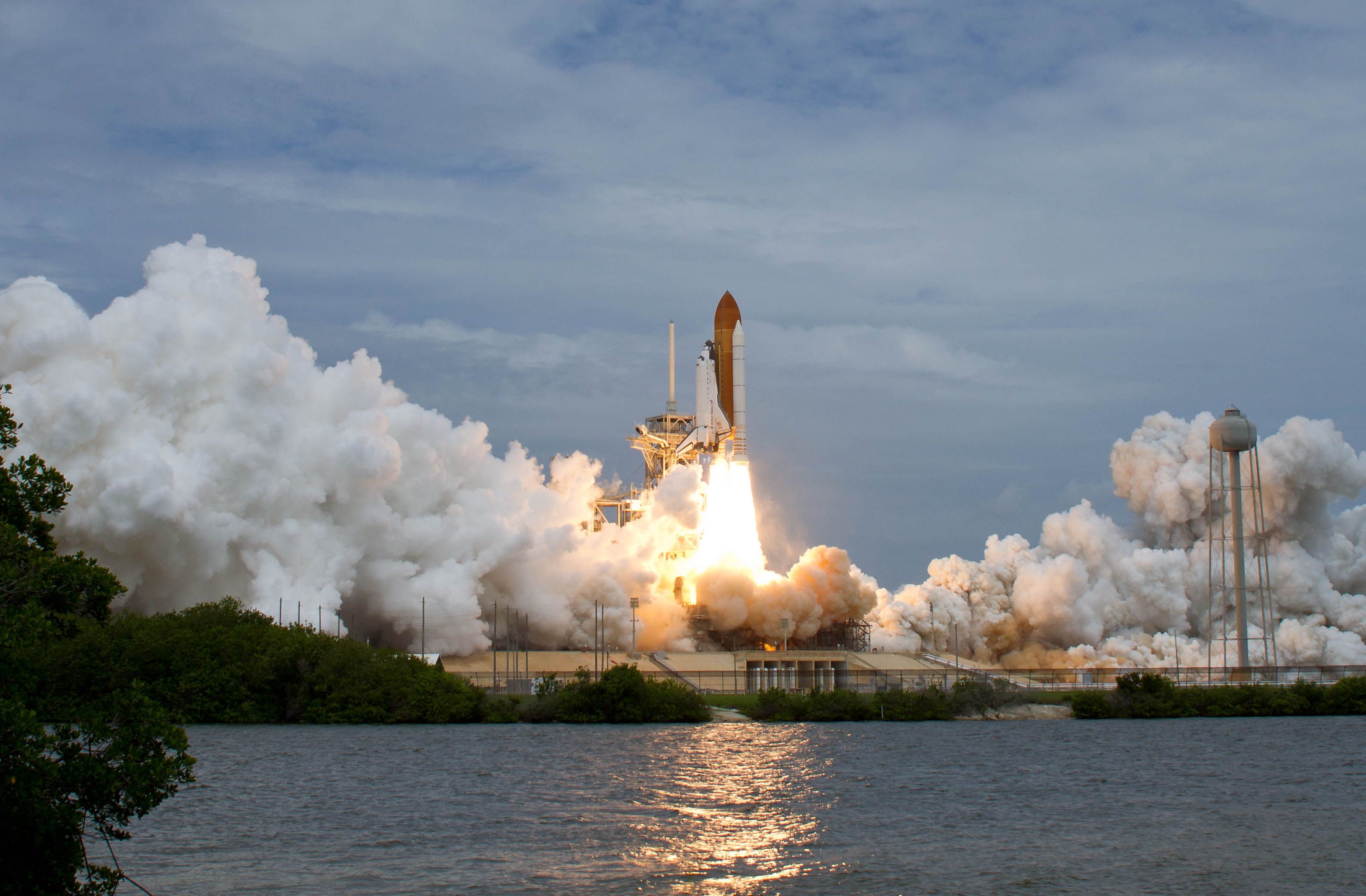 Space Shuttle Atlantis is seen as it launches from pad 39A on Friday, July 8, 2011, at NASA's Kennedy Space Center in Cape Canaveral, Florida on mission STS-135.